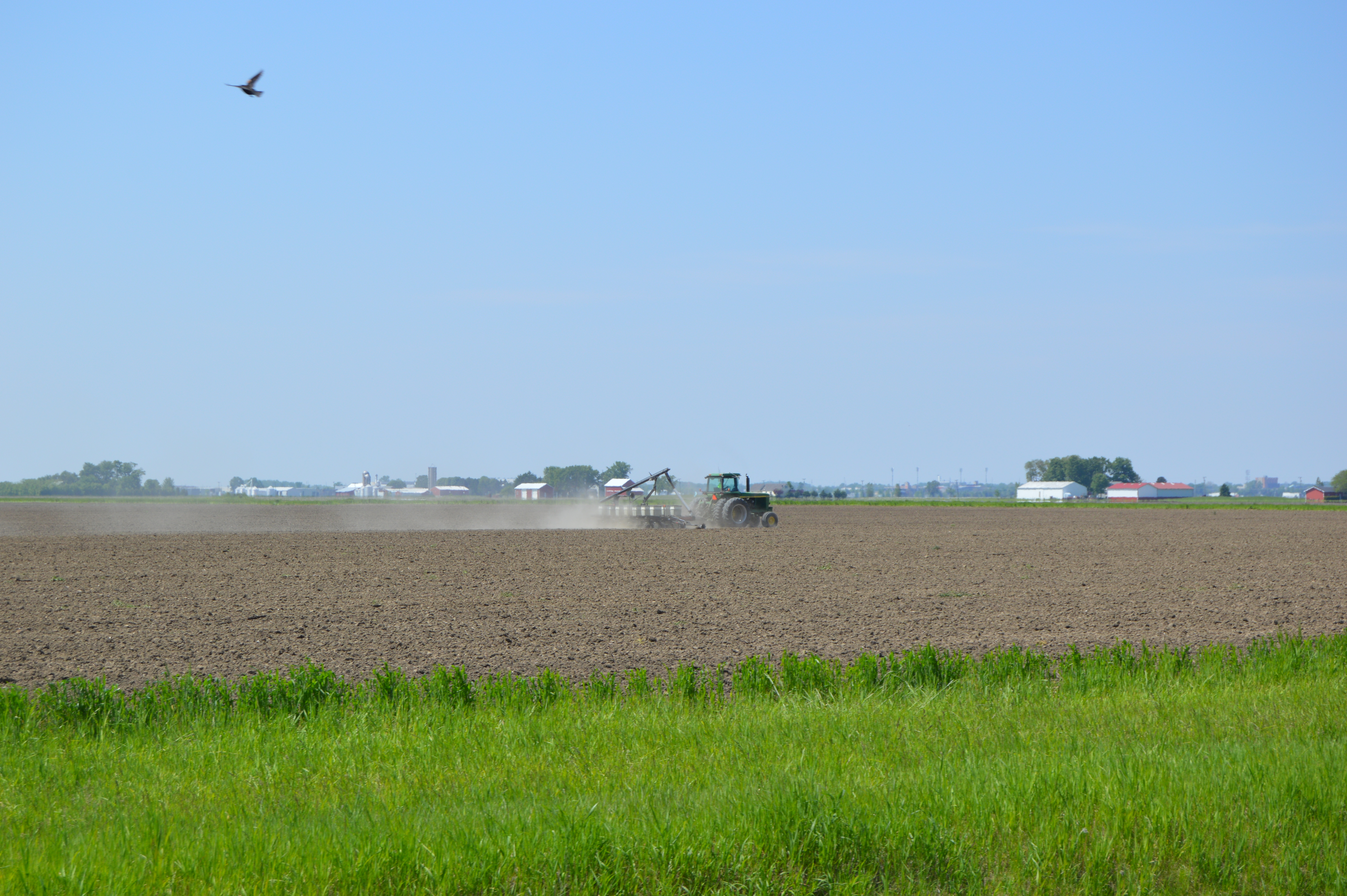 Plowing a field along Nelson Road in far eastern Center Township, Wood County, Ohio, United States.